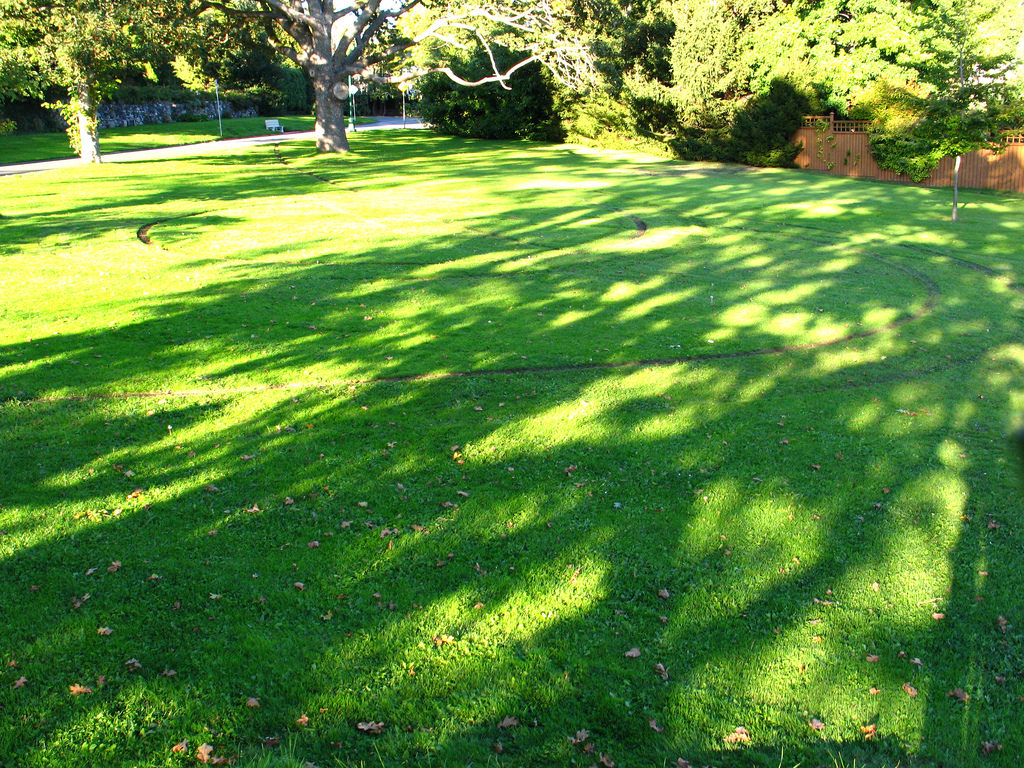 Disrespectful hooligans and their motorcycles...